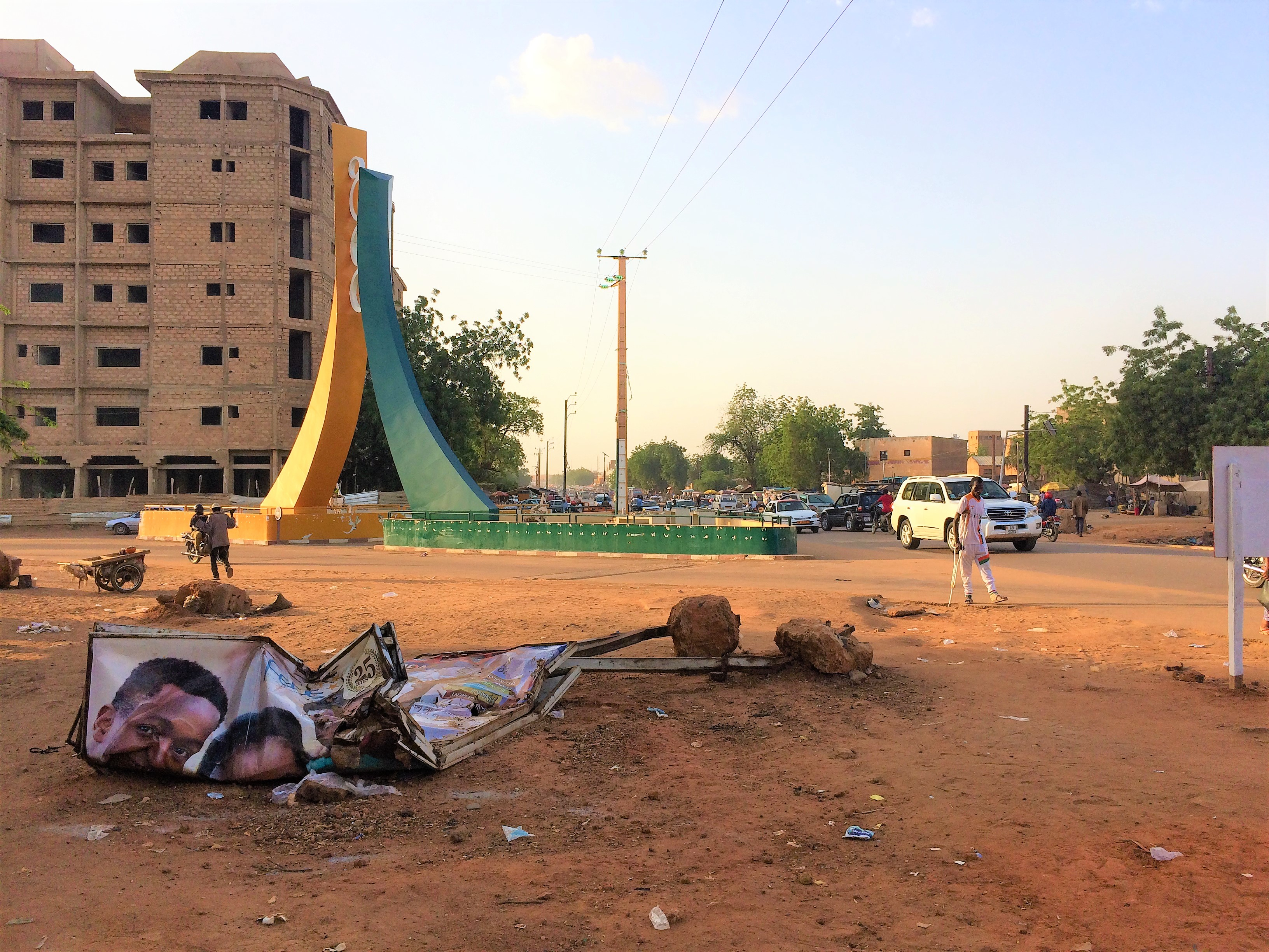 Place du Temple (Square ST-31) in the 'Stade' neighborhood in Niamey, Niger. On the right is the Boulevard de la Liberté.